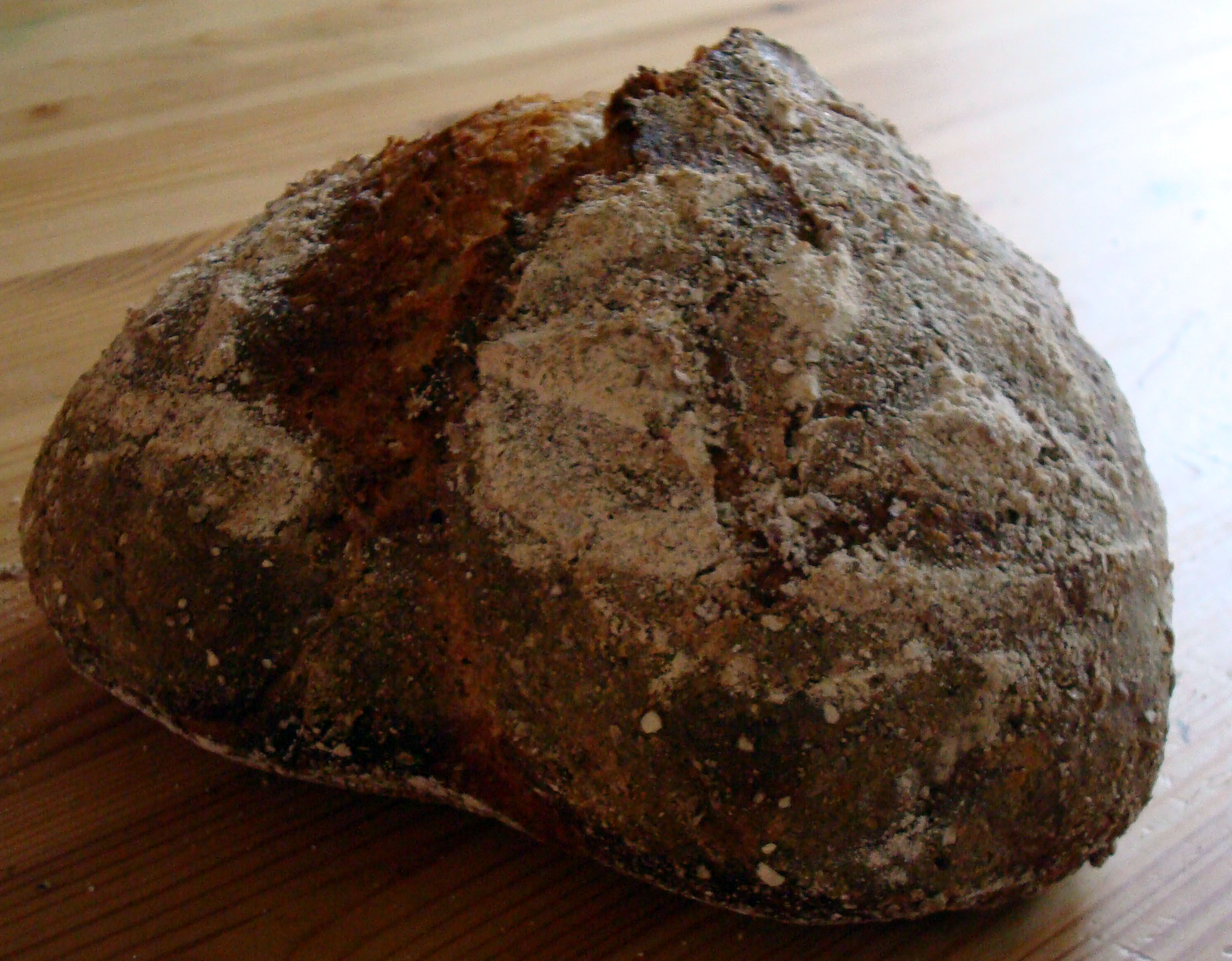 Bread made of sour dough